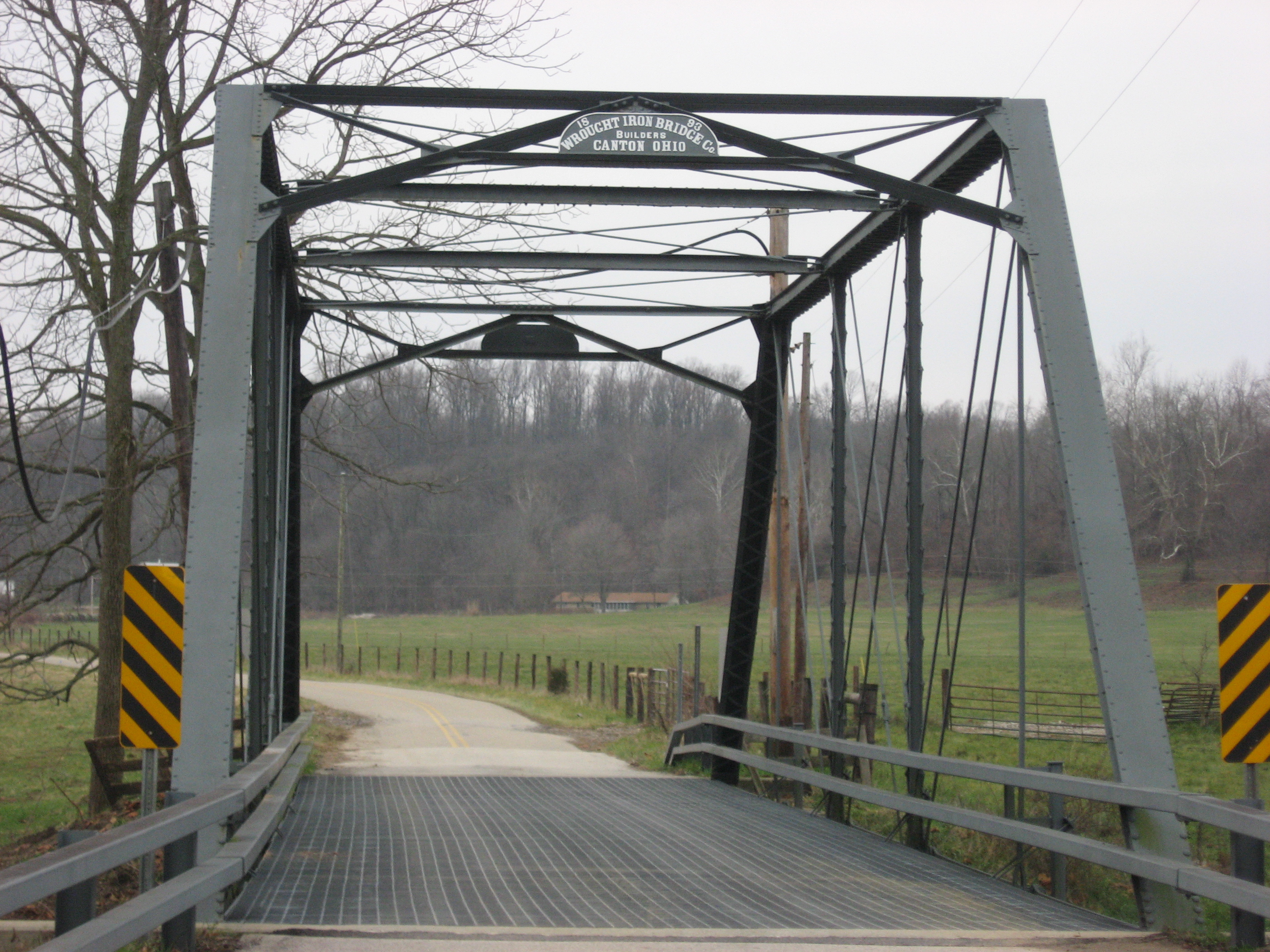 Eastern portal of the Lamb's Creek Bridge, which carries Old State Road 67 over Lamb's Creek near Martinsville in Morgan County, Indiana, United States. Built in 1893, the Pratt through truss bridge is listed on the National Register of Historic Places.